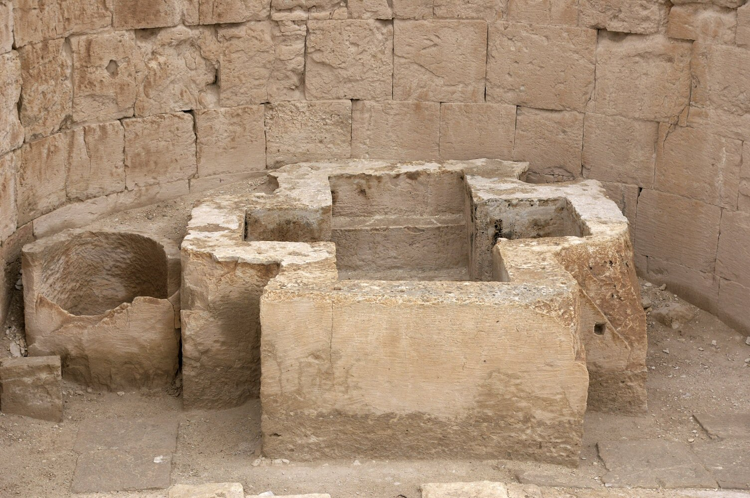 The baptismal font in a fifth century church in Shivta.